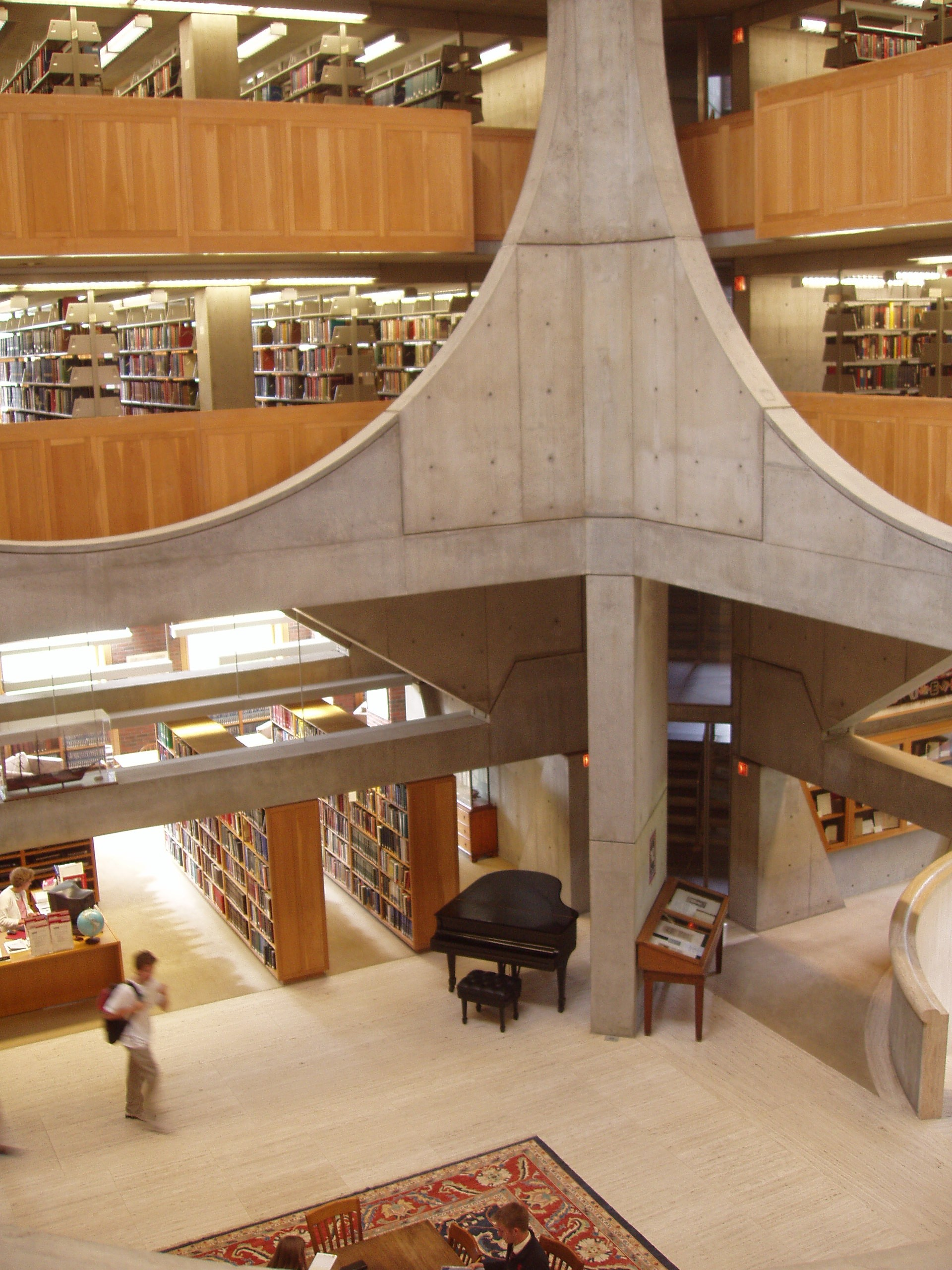 Phillips Exeter Academy library, Phillips Exeter Academy, Exeter, New Hampshire, USA. Architect Louis Kahn, completed 1971.